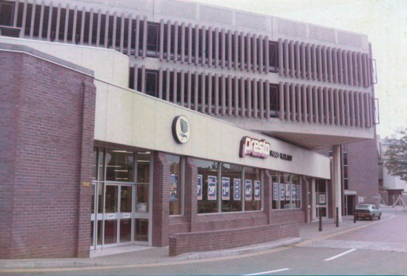 Presto Foodmarket, Cheltenham